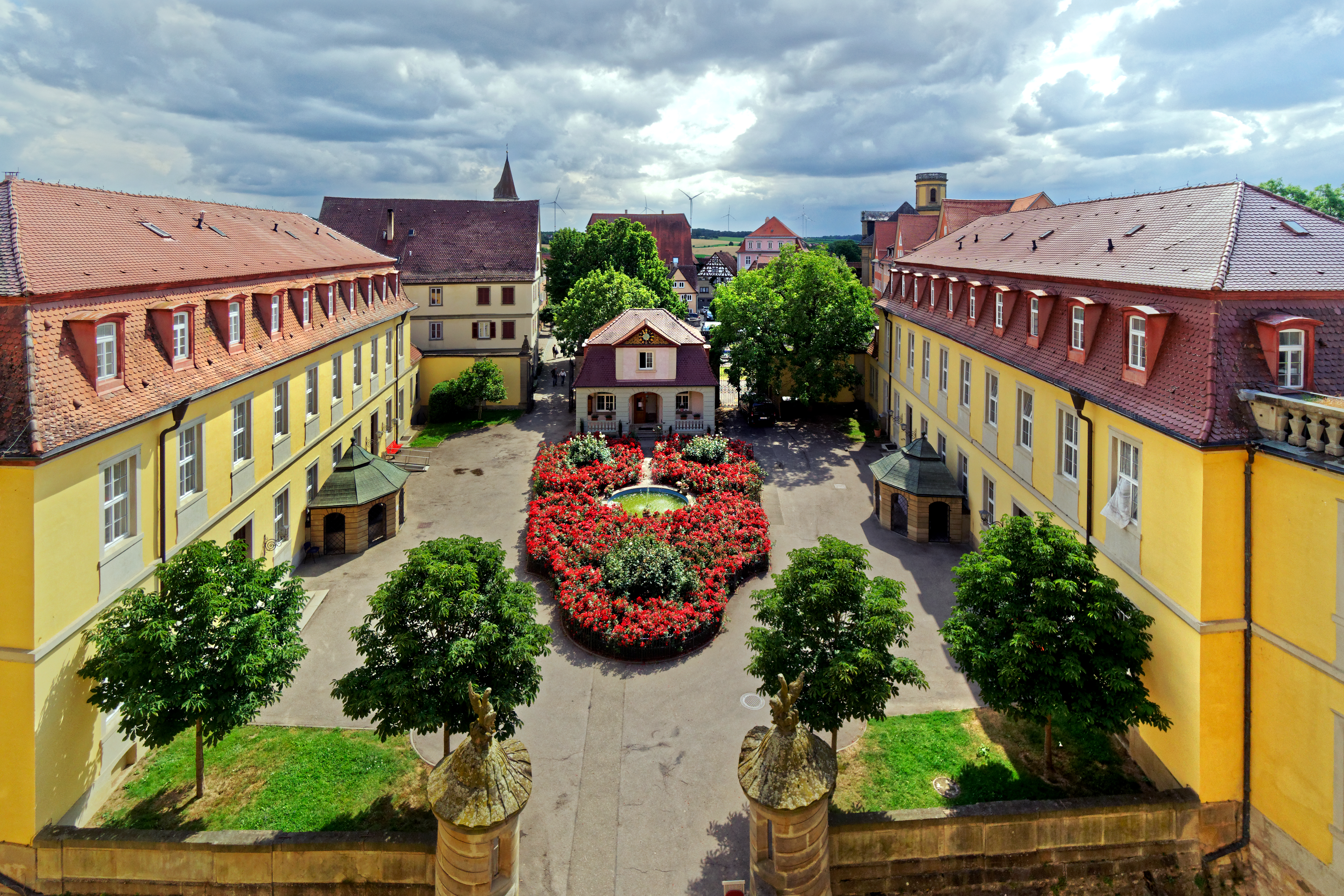 Kirchberg Castle on the Jagst.